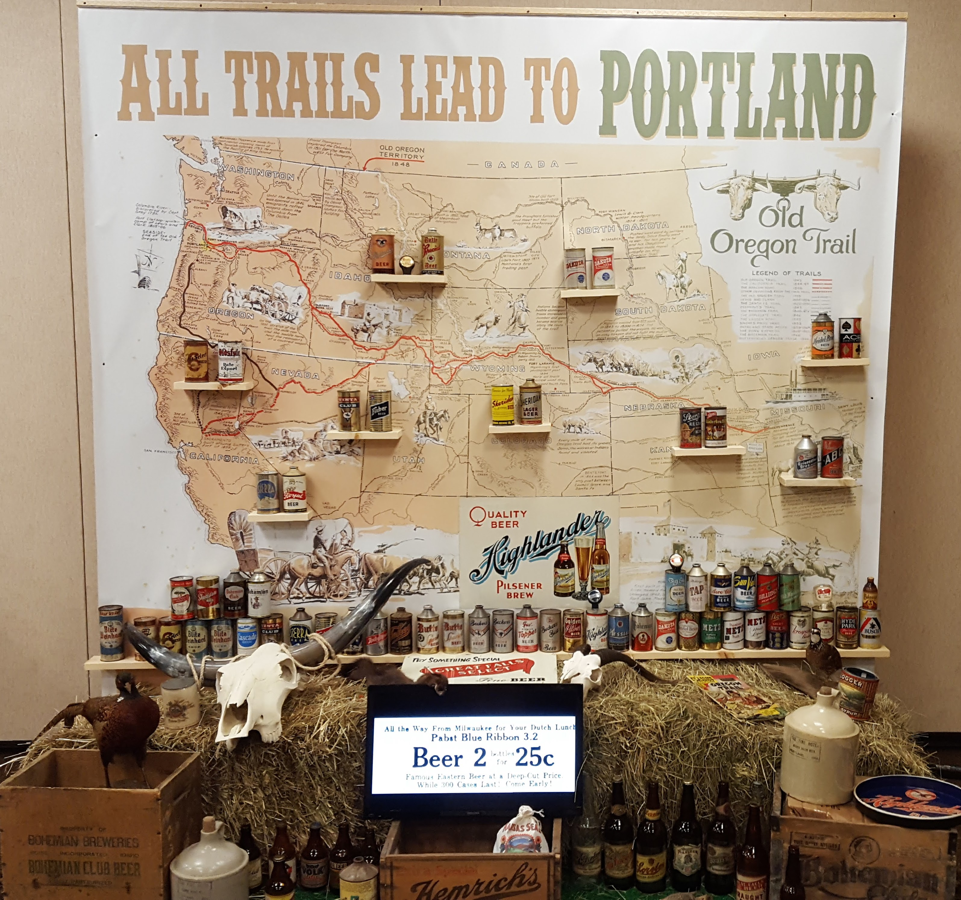 Breweriana from breweries based in the Western United States, displayed at BCCA CANvention 46 (2016) in Portland, Oregon